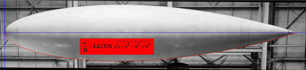 The Albacore takes the forms of Model A of Hilda M. Lyon. These forms are drawn by the equation appearing in the red rectangle (according to the thesis of Hilda M. Lyon 2 cited by en.wikipedia Hilda Lyon)